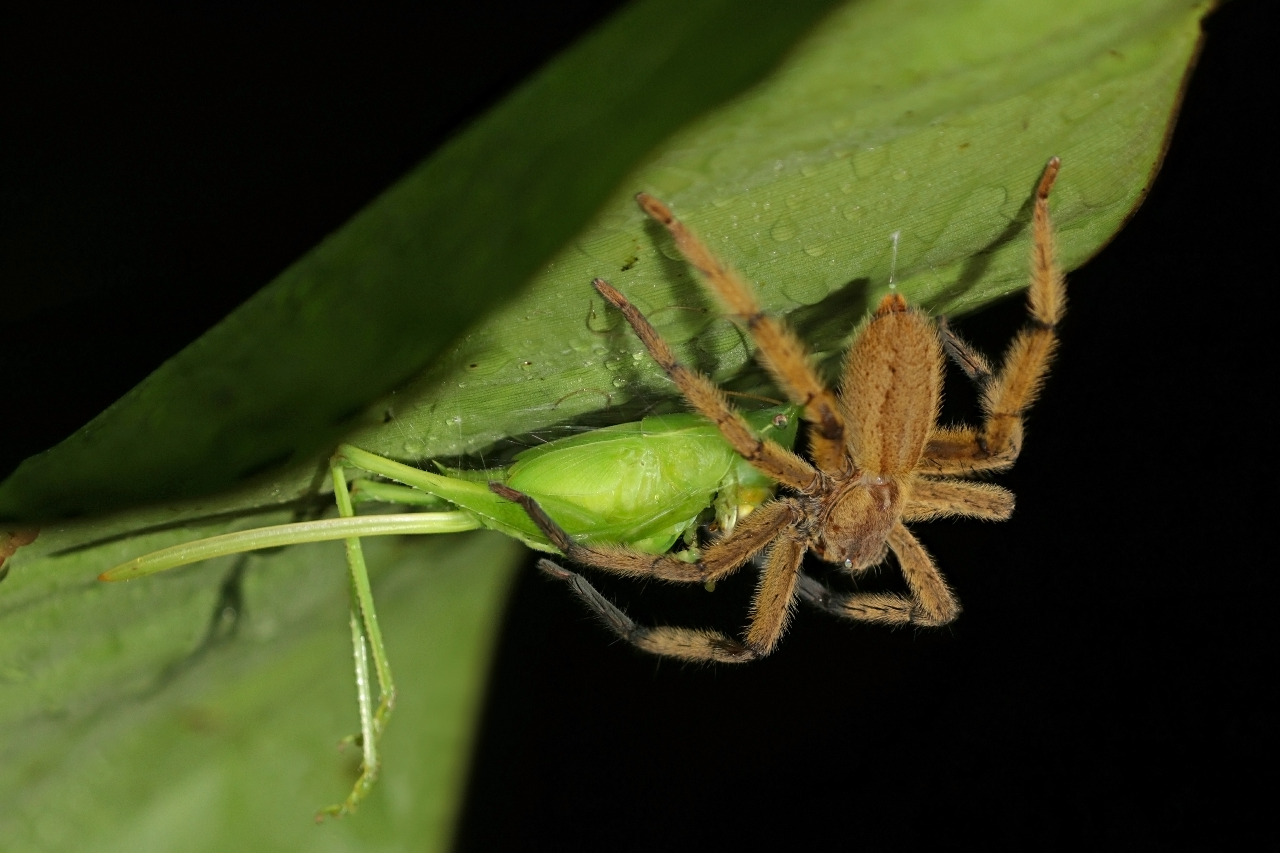 Wandering spider (Cupiennius getazi) with female katydid prey (Tettigoniidae sp.), Anton Valley, Panama